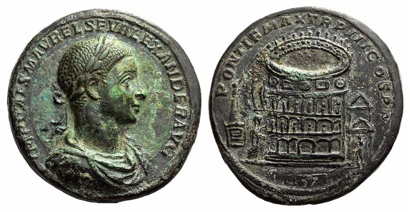 Severus Alexander. AD 222-235. Medallion (Bimetallic, copper and orichalcum, 37mm, 40 g 12), Rome, 224. IMP CAES M AVREL SEV ALEXANDER AVG Laureate and draped bust of Severus Alexander to right. PONTIF MAX TR P III COS P P The Amphitheatrum Flavianum (”The Colosseum”). It is shown from the front, with four stories: the first with arches, the second with arches containing statues, the third with flat-topped pedimented niches containing statues, and the fourth with square windows and circular clupea; in a bird’s eye view the circular interior can also be seen with two tiers of spectators. Outside, to left, Severus Alexander stands right sacrificing over a low altar; behind him is the Meta Sudans and a large statue of Sol. To right, a two-storied distyle building with two pediments and a male statue (Jupiter?) before. Apparently unpublished, but see Gnecchi II, p. 80, 9 (obverse) and Gnecchi III, p. 42 = Toynbee pl. 29, 7 (the reverse). See also BMC 156-157 and Cohen 468 for sestertii with the same types (but dating to 223).